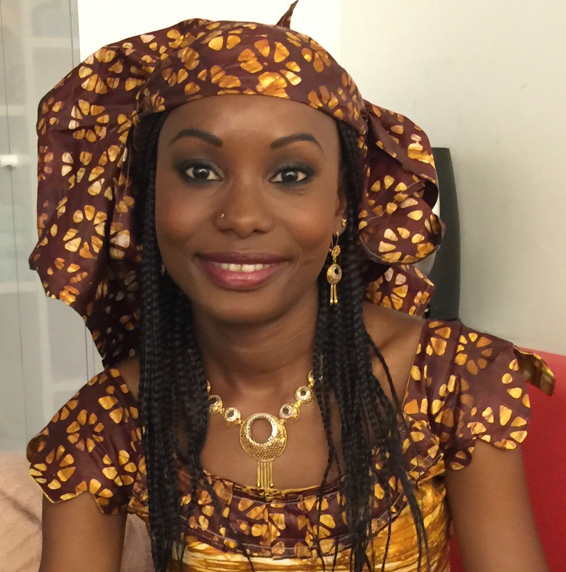 Depicted person: Hindou Oumarou Ibrahim – environmental activist and geographer